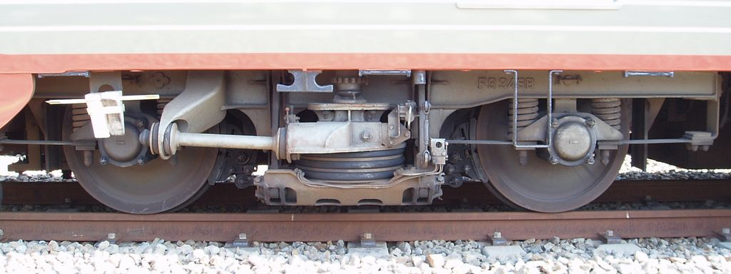 Bogie of Odakyu Electric Railway type 3100.